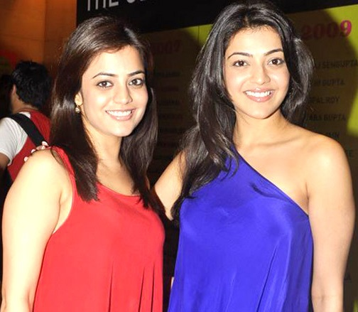 Nisha and Kajal Aggarwal at Lakme Fashion Week 2012.